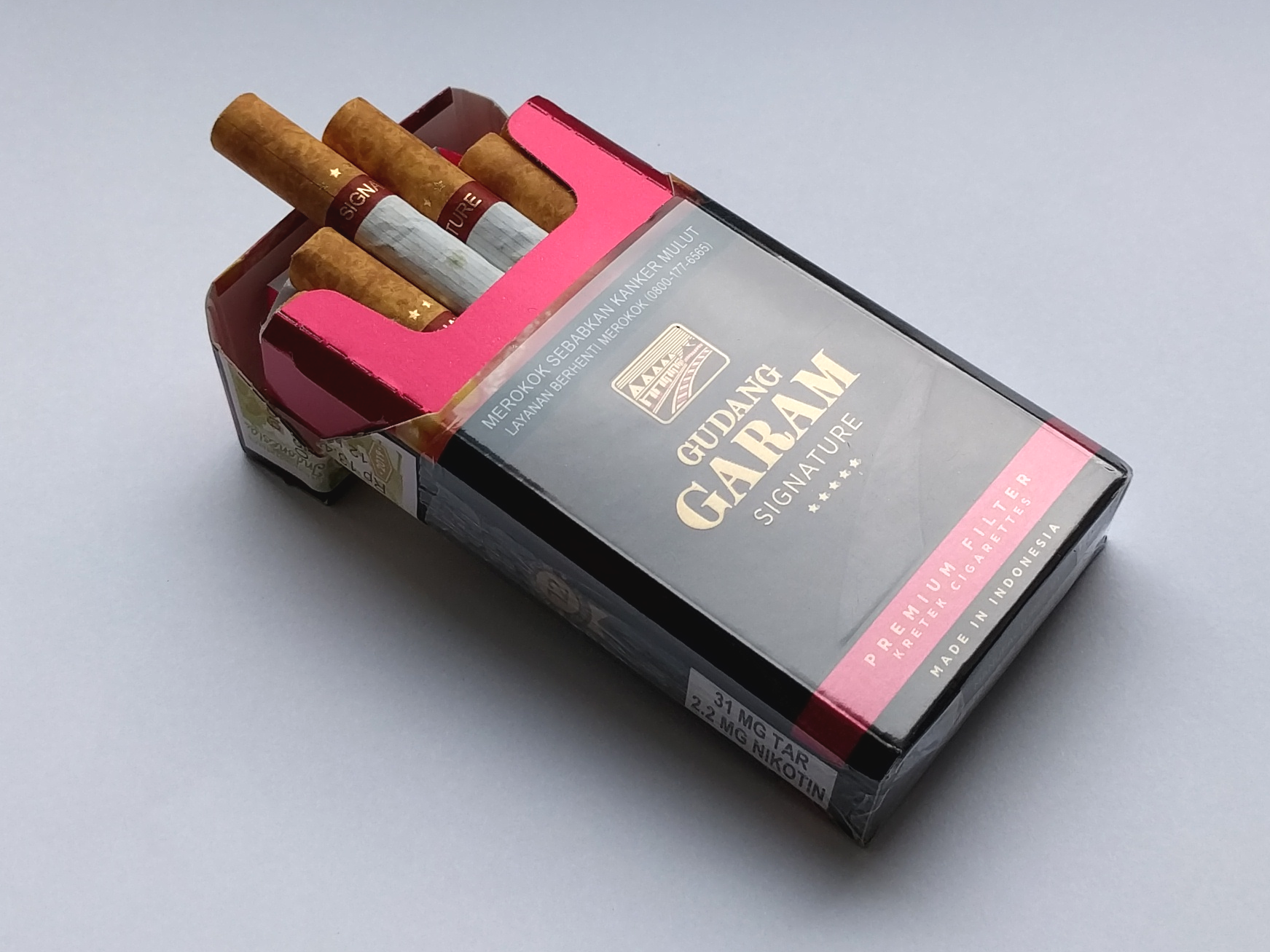 Open pack of Gudang Garam Signature "kretek" cigarettes.